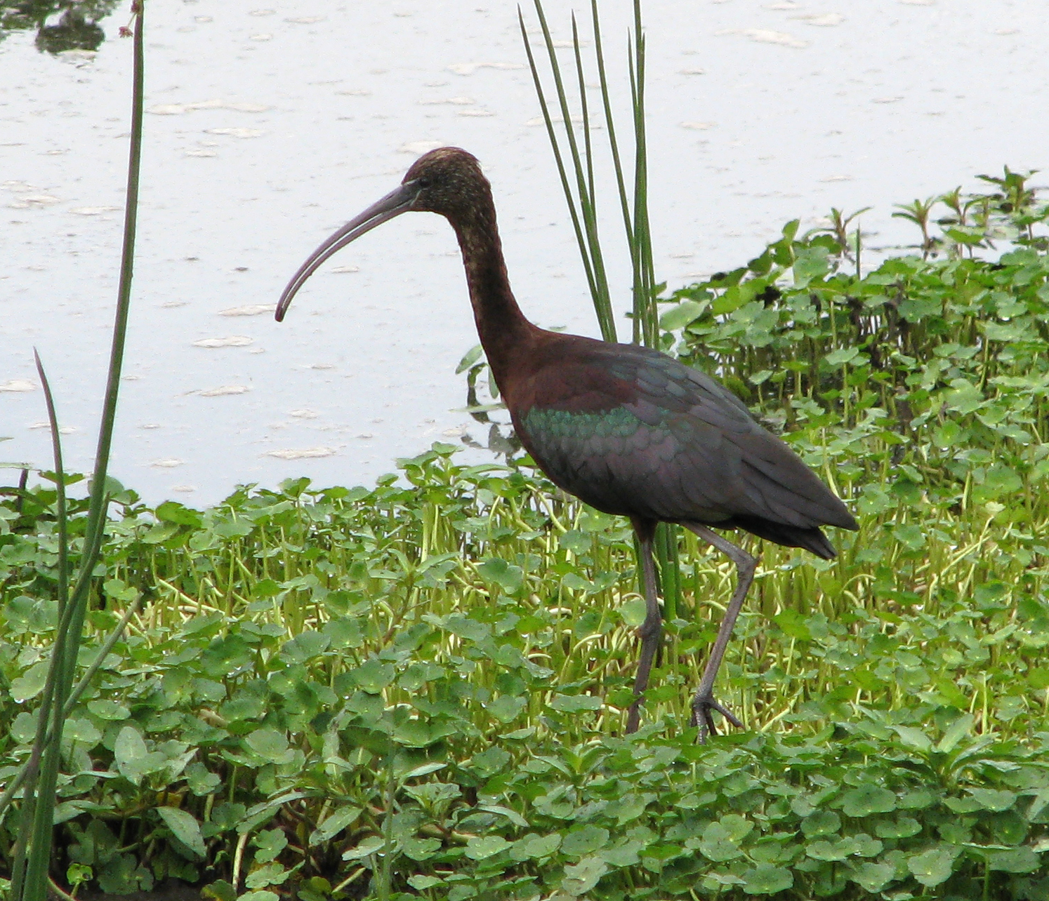 Glossy Ibis Plegadis falcinellus at Ngorongoro crater, Tanzania